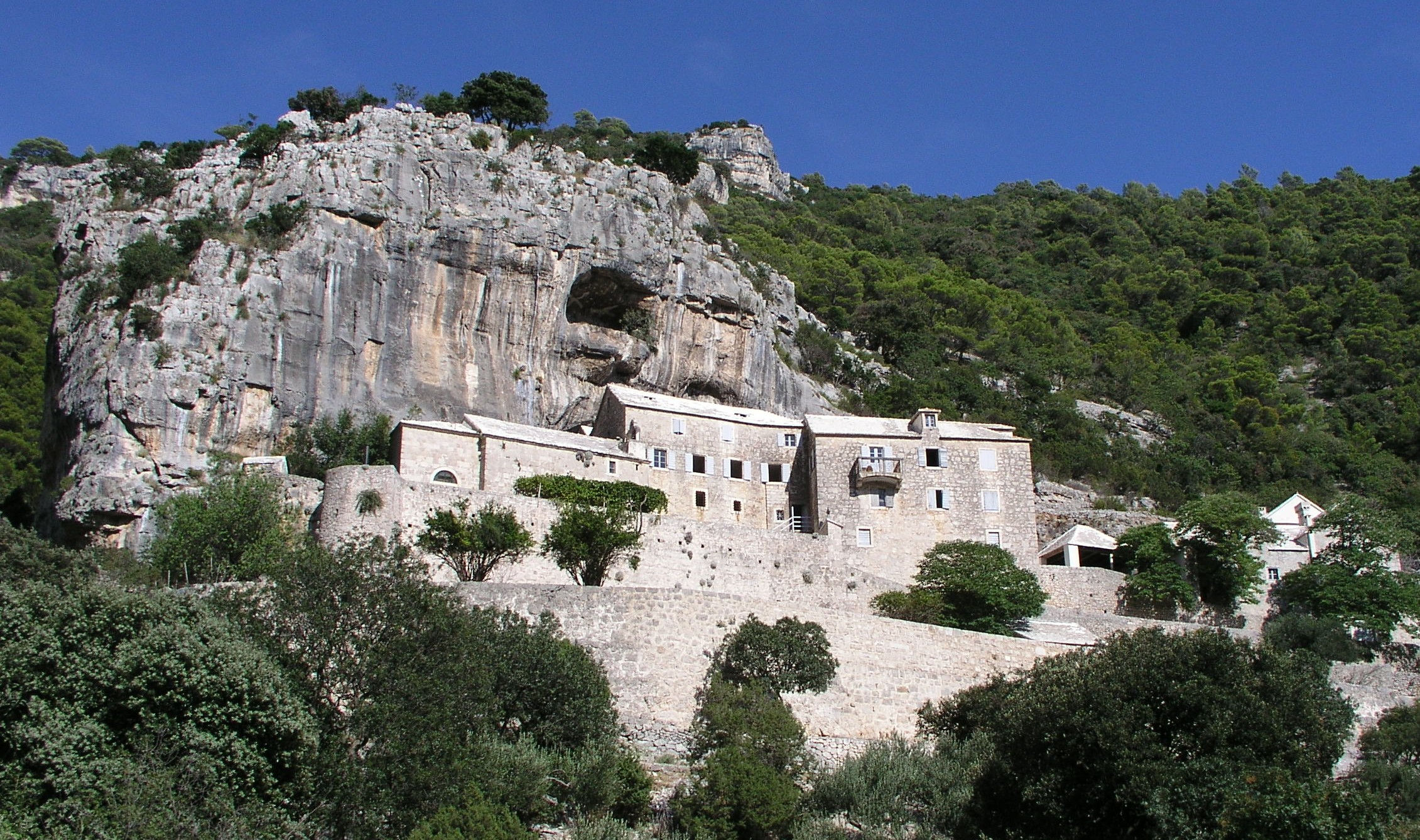 Blaca Monastery